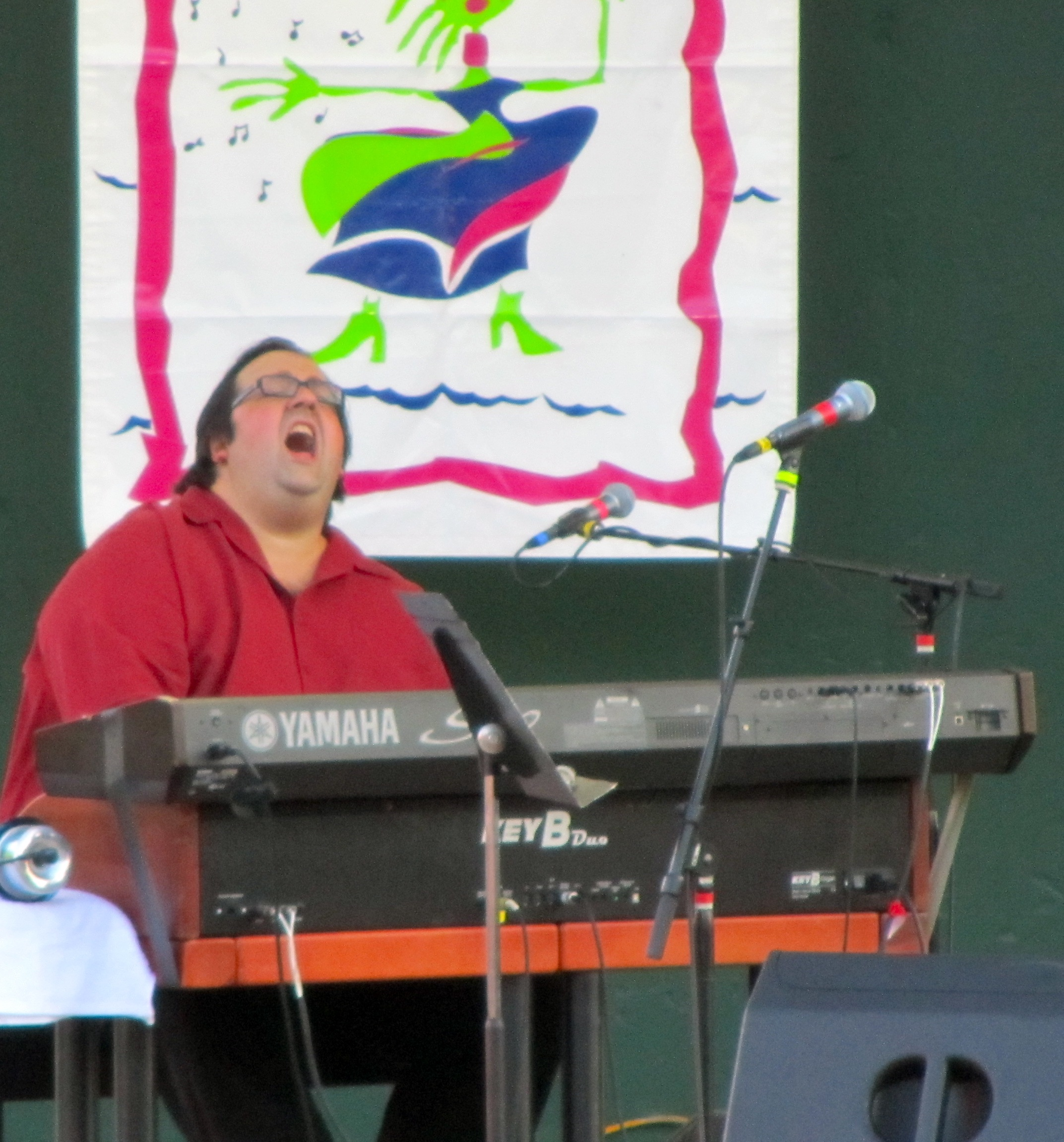 Joey DeFrancesco on KeyB Duo organ and Yamaha S90 from Flickr album "Joey DeFrancesco (afternoon)" by ellenm1 from Ann Arbor, MI, USA